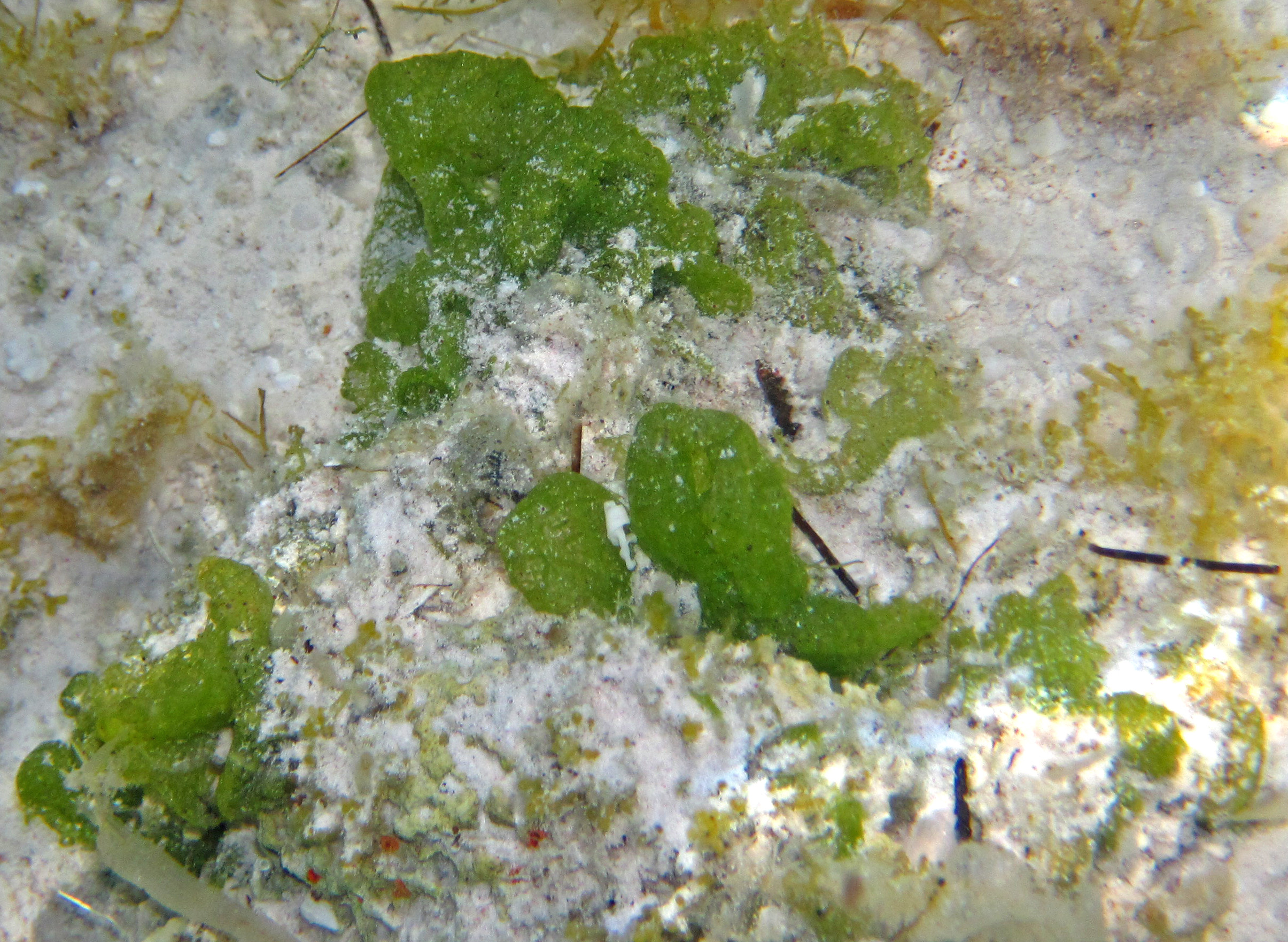 Microdictyon marinum (Bory de Saint-Vincent, 1825) - network algae on shallow, aragonitic sandy seafloor. Classification: Chlorophyta, Cladophorales, Anadyomenaceae Locality: just offshore from Sand Dollar Beach & just south of Rocky Point, northwestern San Salvador Island, eastern Bahamas